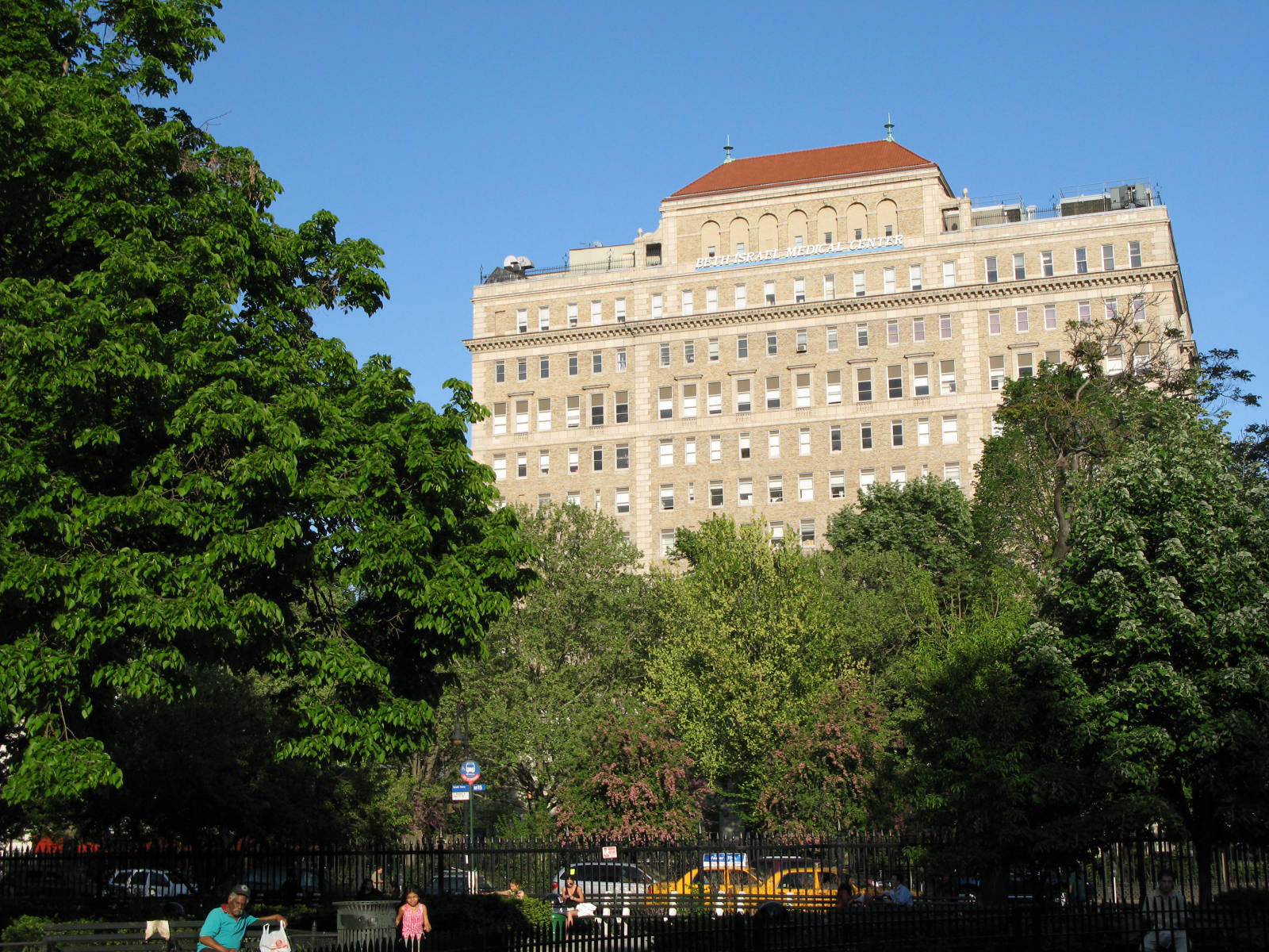 The Dazian Pavillion of Beth Israel Medical Center at 10 Nathan D. Perlman Place between 16th and 17th Streets, Manhattan, New York City.